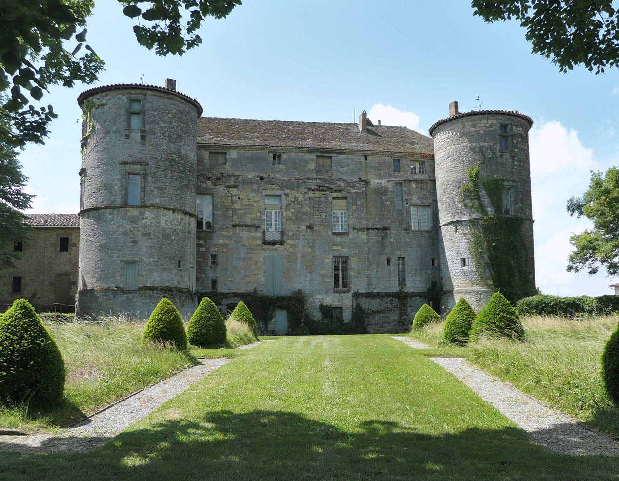 Castle of Loubens-Lauragais, Haute-Garonne, Midi-Pyrénées, France. The north facade, facing the park, is framed by two defensive round towers.